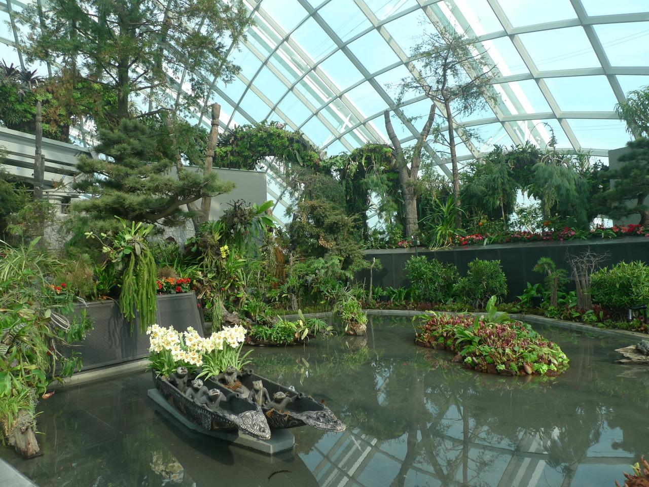 Inside the Cloud Forest at Gardens by the Bay, Singapore.